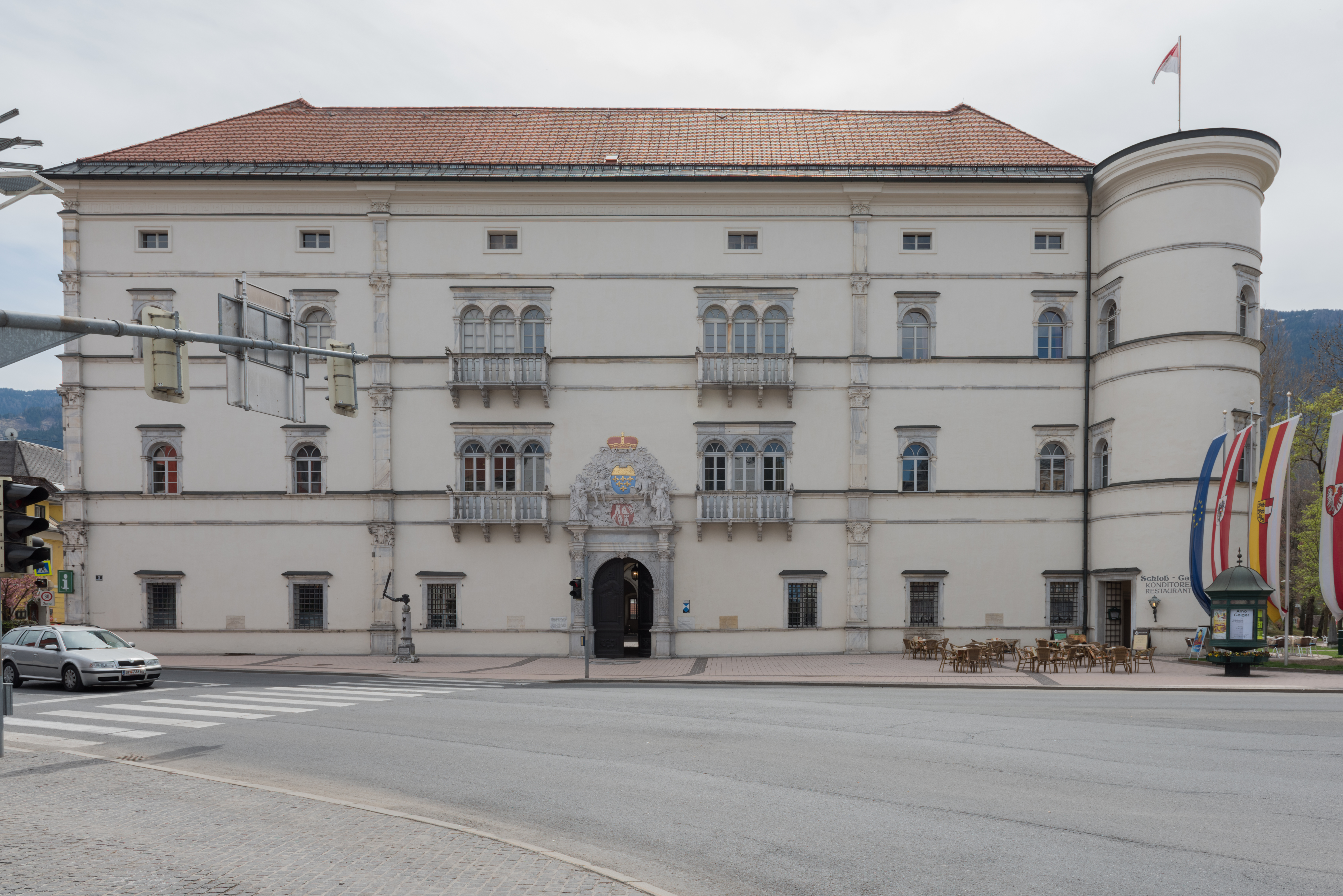 Northern view at castle Porcia, municipality Spittal an der Drau, Carinthia, Austria, European Union